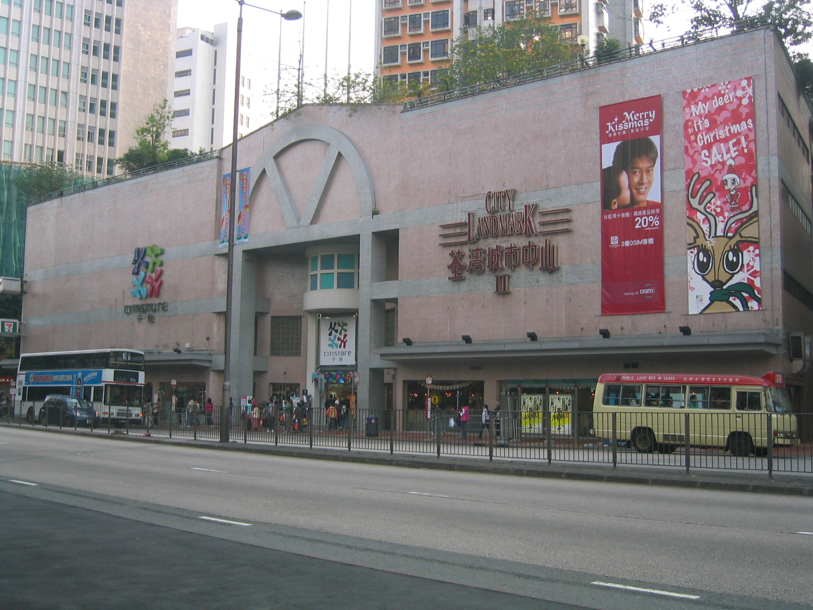 A Citistore in City Landmark II, Tsuen Wan, Hong Kong.